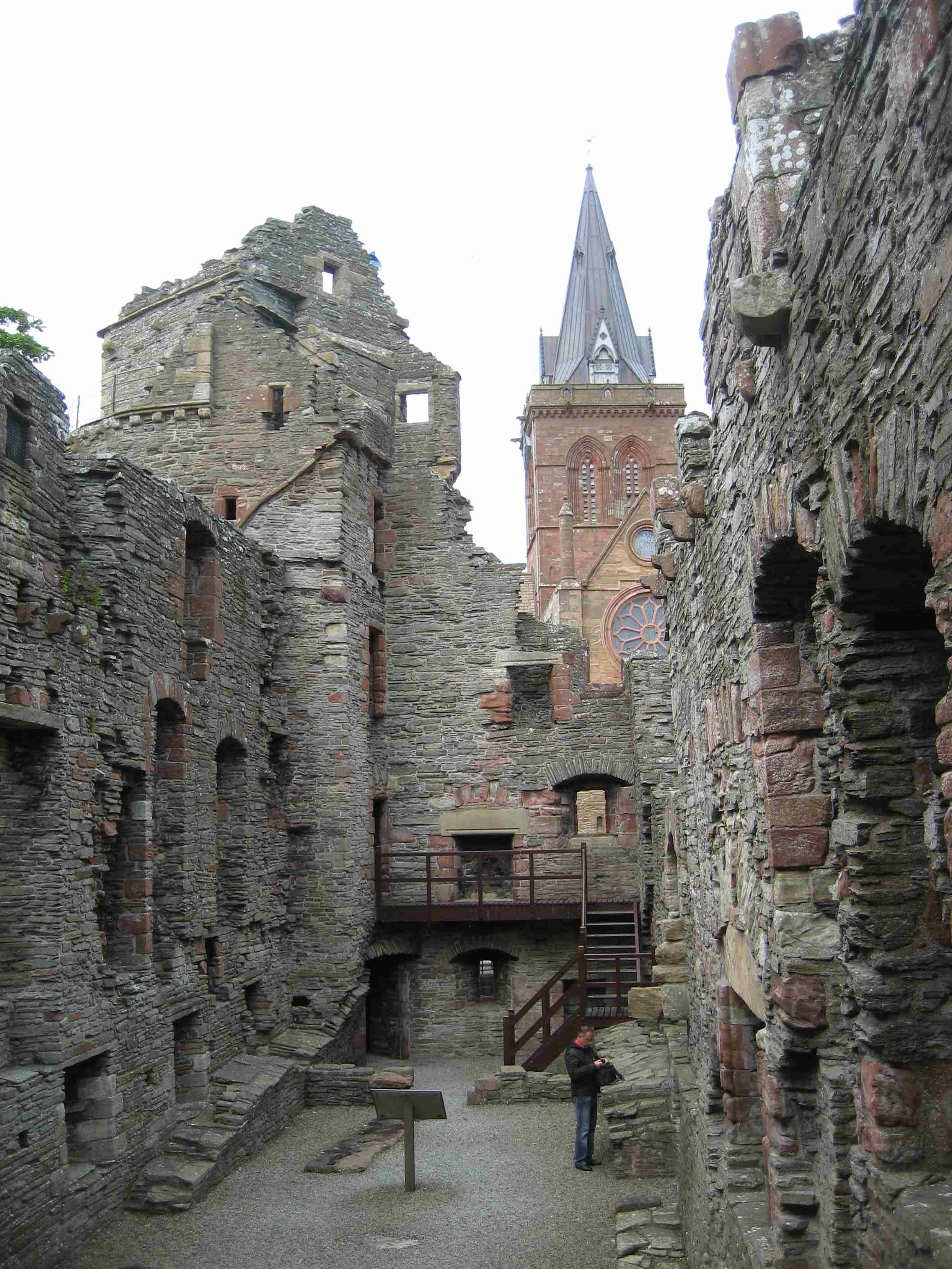 Ruins of the Bishop's Palace in Kirkwall, Orkney Islands, Scotland.